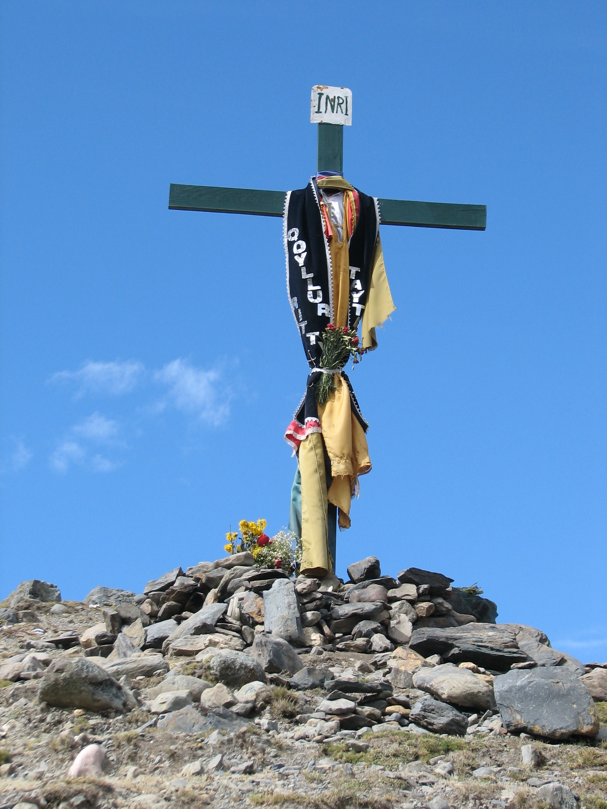 Qoyllur R'Iti, Peru. First cross along the road to Qoyllur R'Iti.